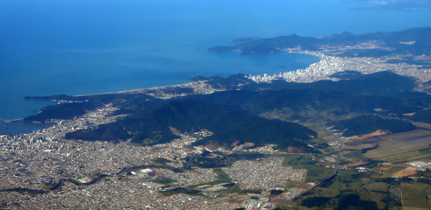 Panoramic aerial view of Balnerário Camboriú (right) and Itajai (left), Santa Catarina state, Brazil